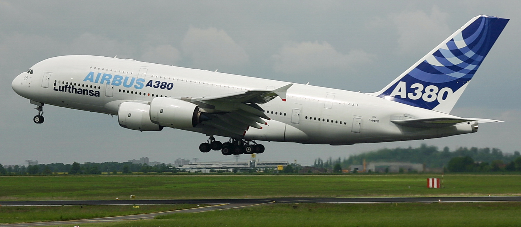 Aribus A380 go around/aborted landing at "Internationalen Luftfahrtausstellung Berlin 2006"